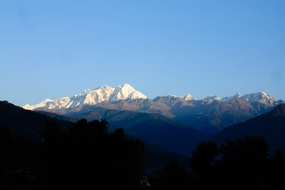 Annapurna II